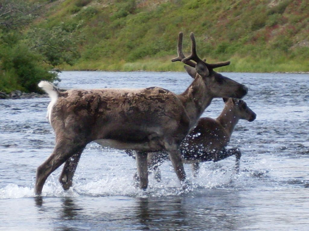 Caribou crossing Kanektok River, Togiak National Wildlife Refuge, AK. Credit: Allen Miller/USFWS